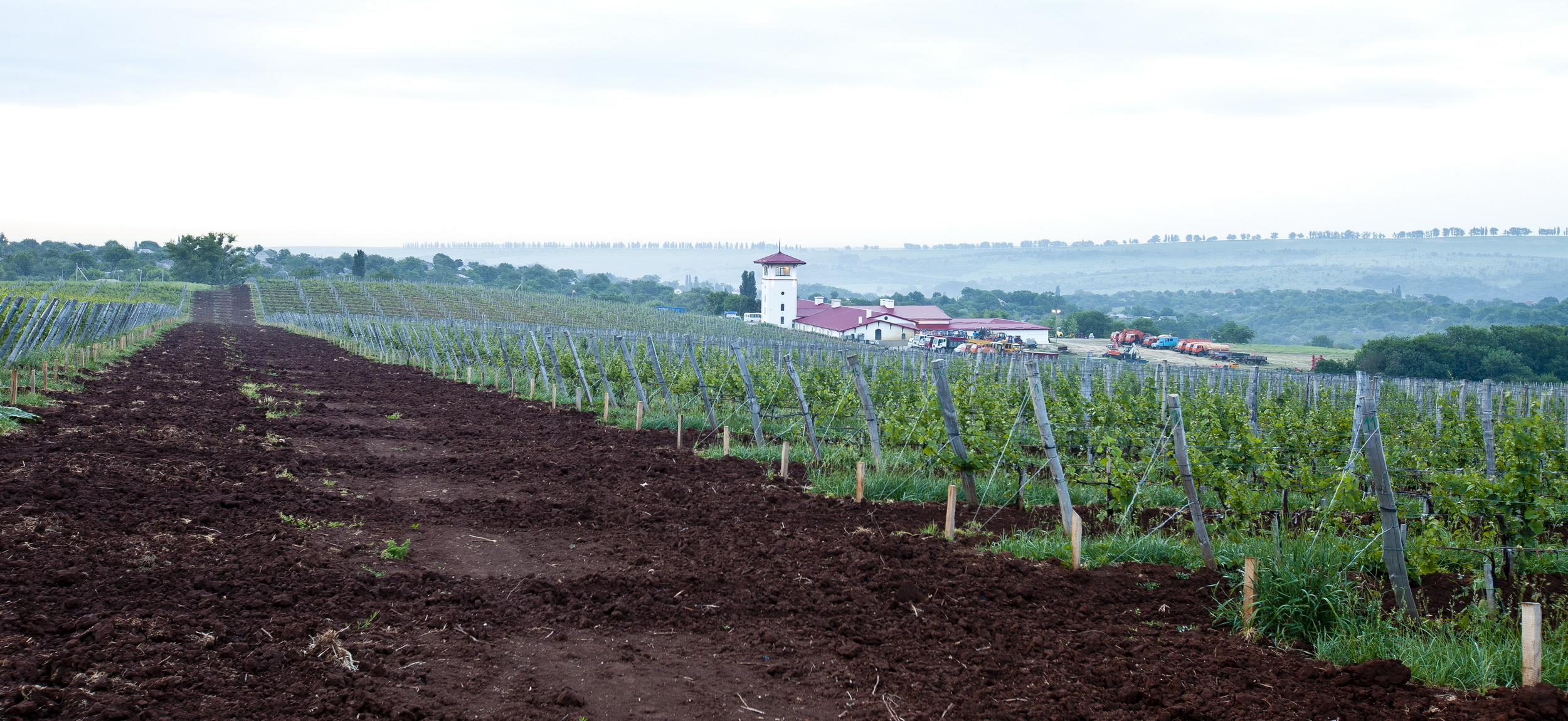 Russian winery "Lefkadia" view